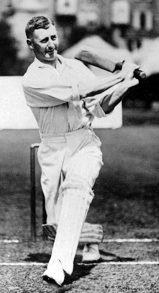 Sport, Cricket, Cigarette card, Circa 1920, John Cornish White, Somerset, (1909-1937) and England